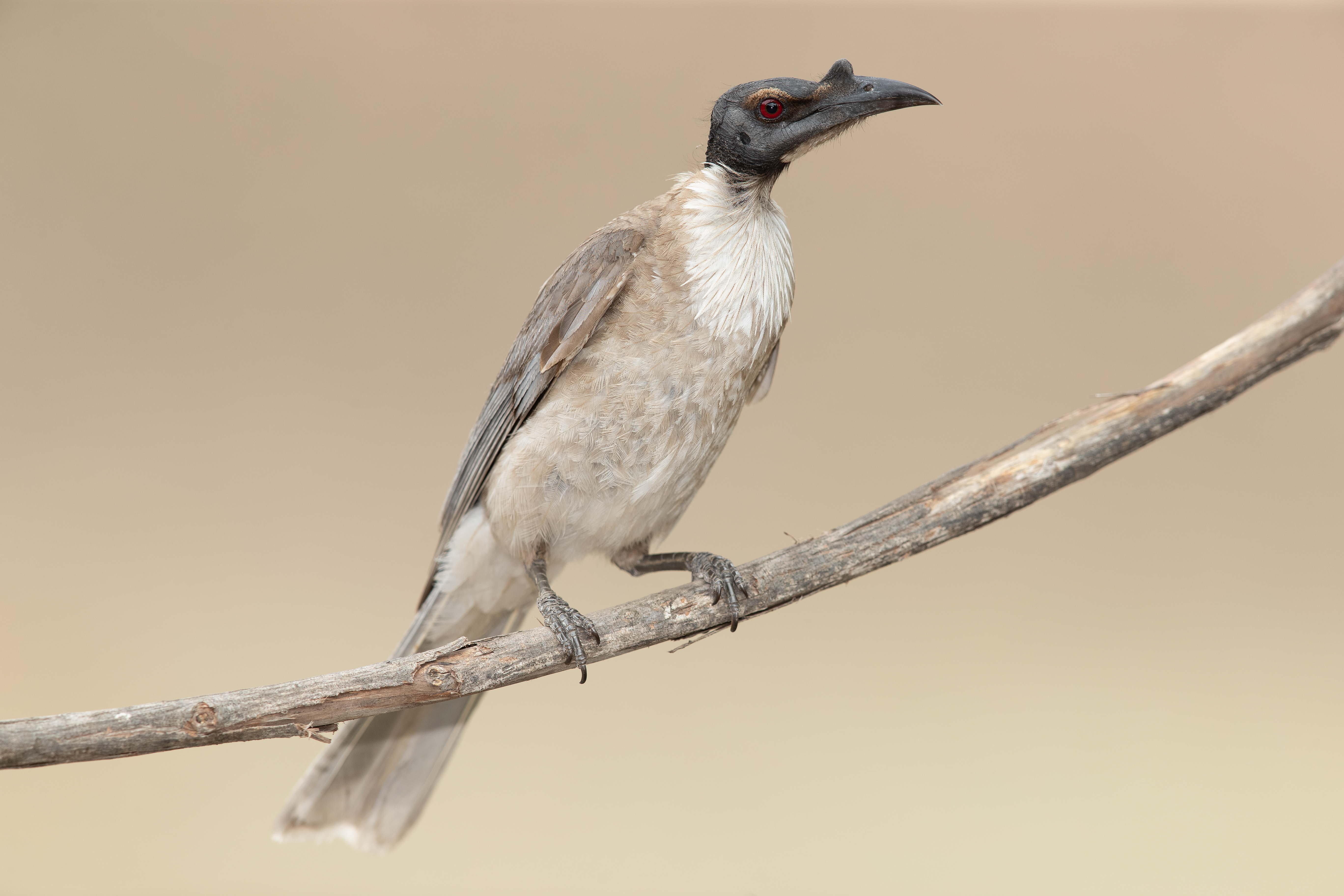 Noisy Friarbird (Philemon corniculatus), Glen Davis, Lithgow, New South Wales, Australia